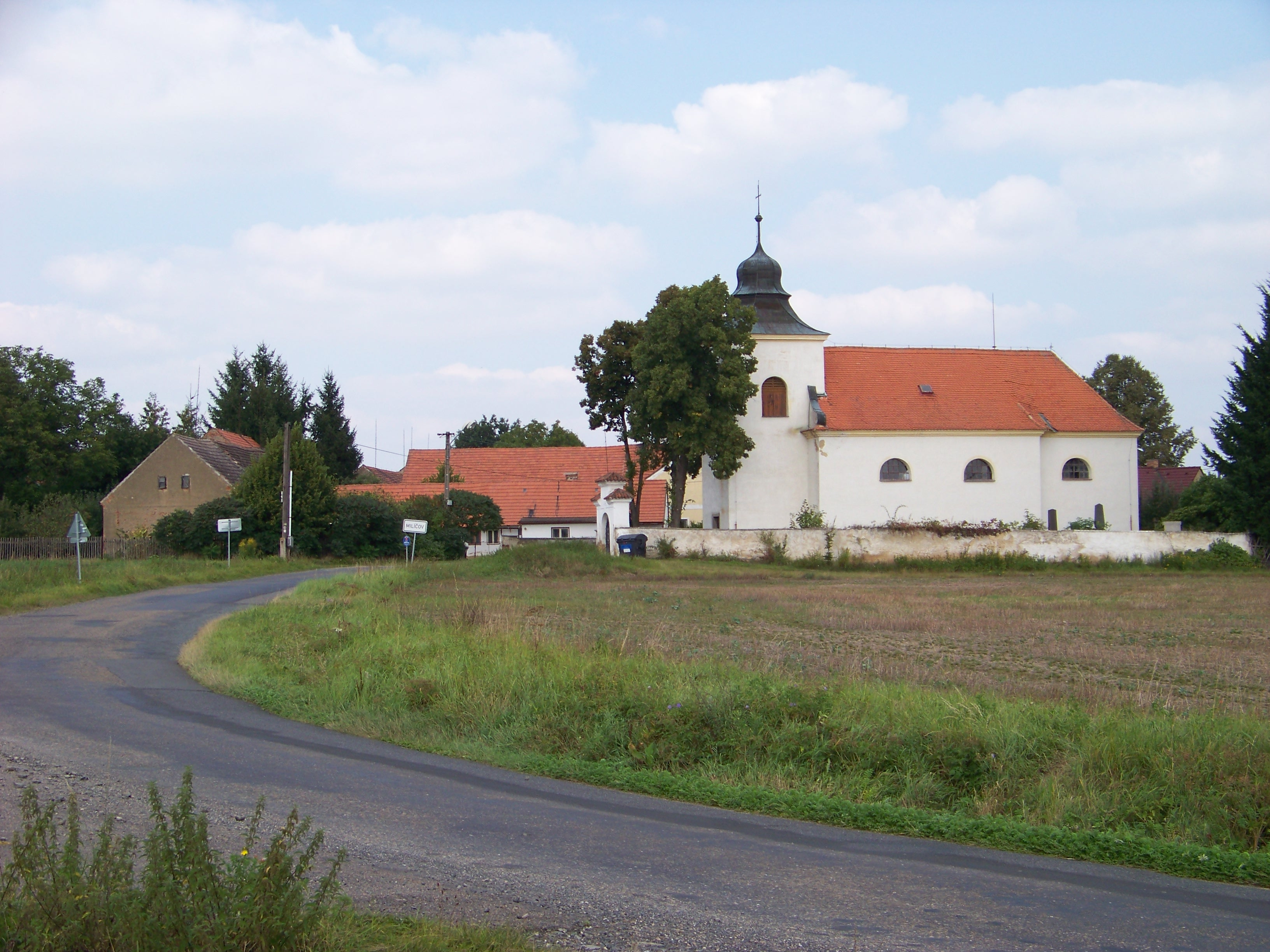 Šípy-Milíčov, Rakovník District, Central Bohemian Region, the Czech Republic. Church of Saint Peter ad Vincula.